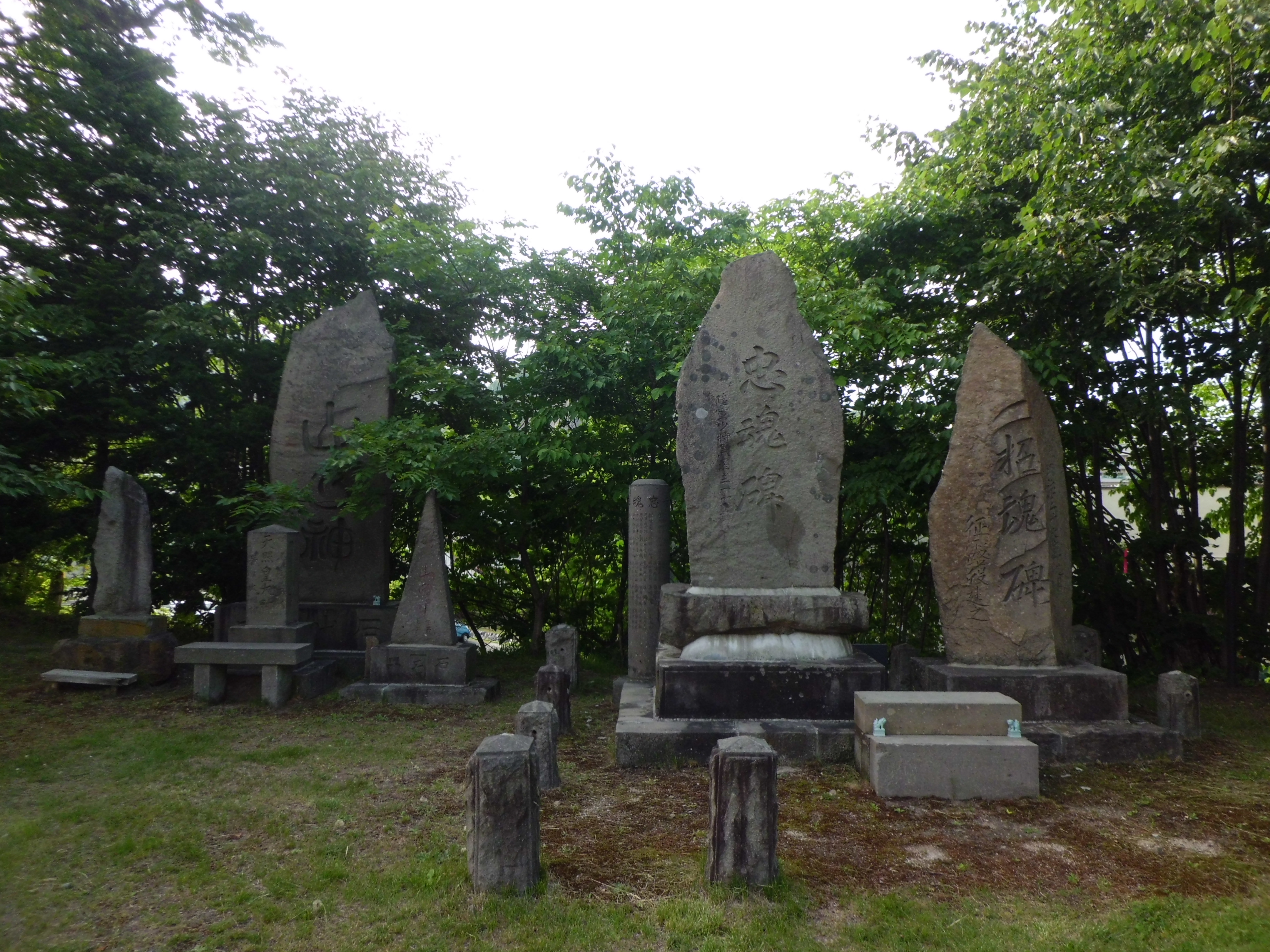 Monuments at Ishiyama Shrine